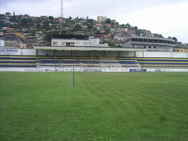 Lawn of the Louis Ensch Stadium, in Coronel Fabriciano, Minas Gerais, Brazil.